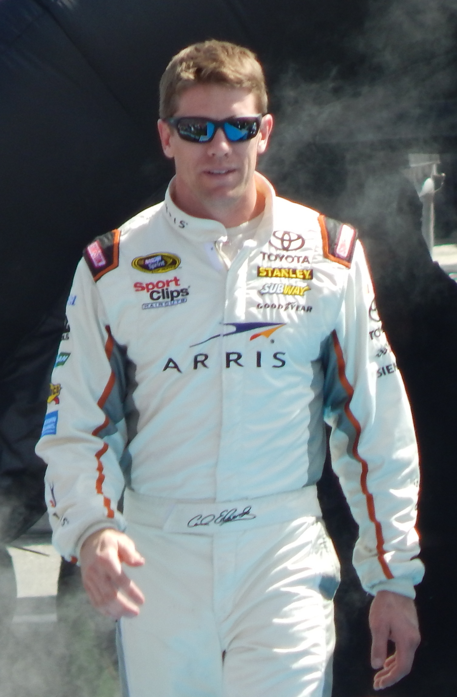 Carl Edwards being introduced at Daytona International Speedway.